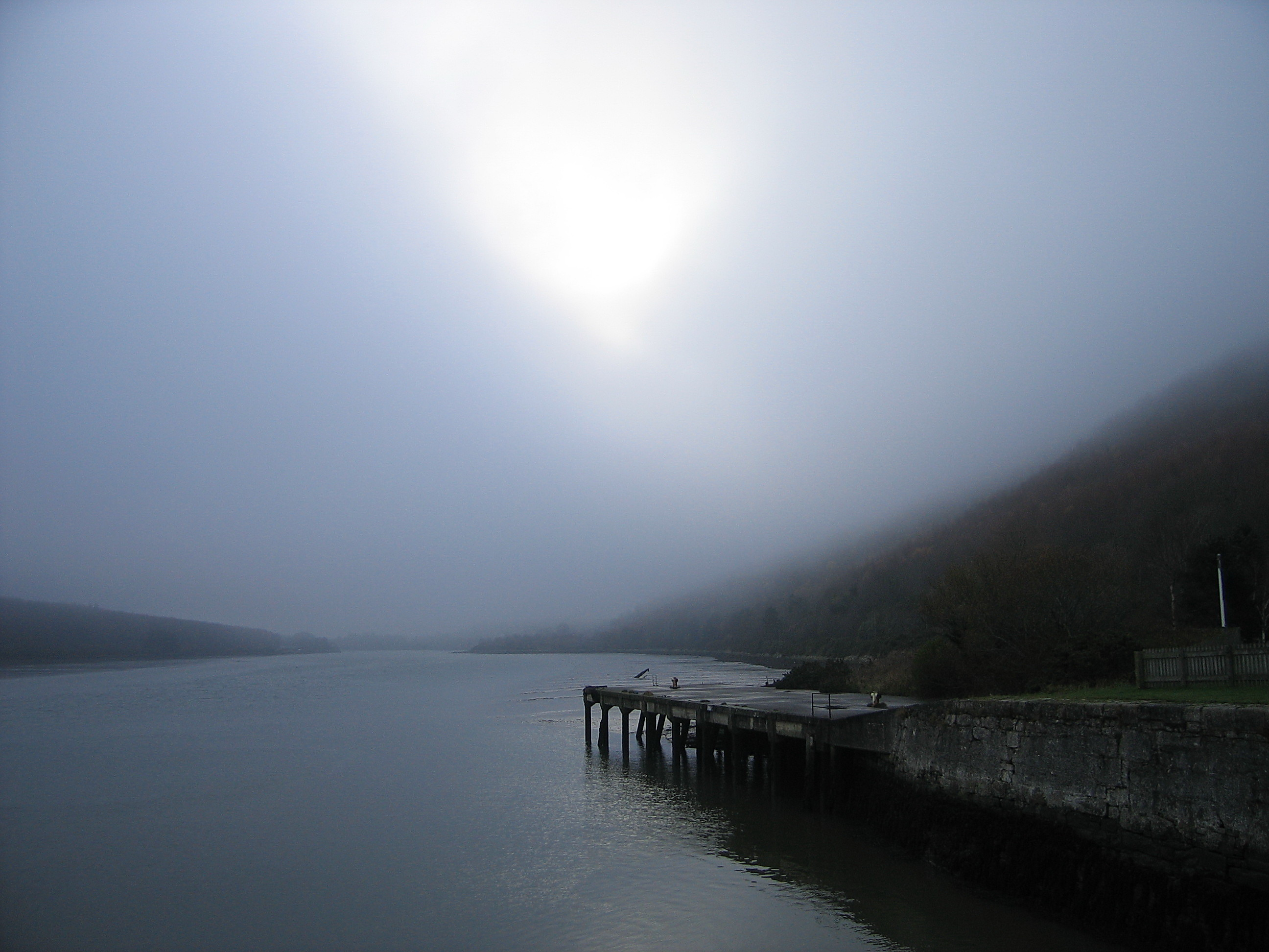 Carlingford Lough, on the southern coast, looking seawards. The road hugging the coast on the right is the R173 to Carlingford.